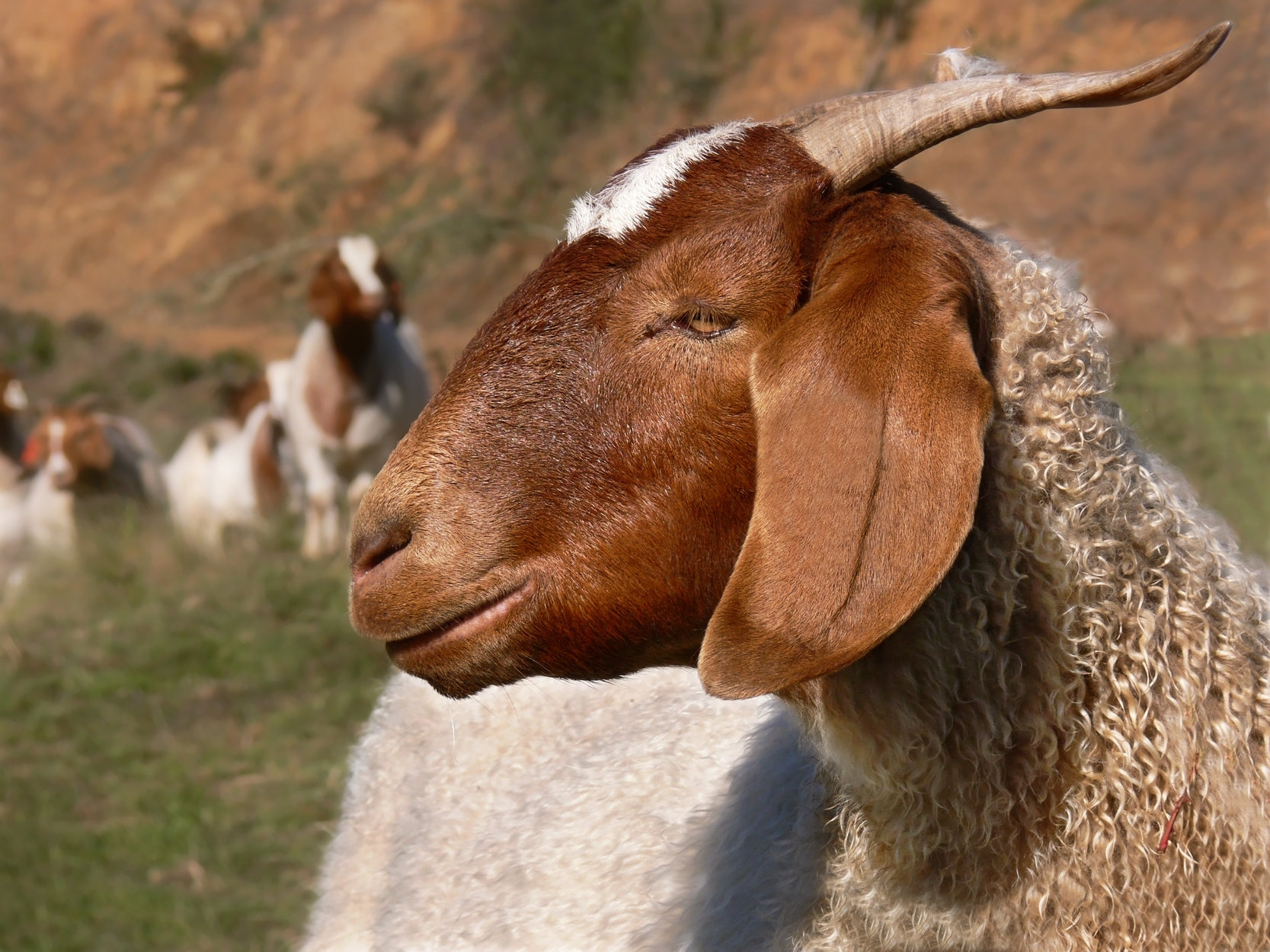 A female Boer goat on a farm in South East Australia, Ensay, Victoria.